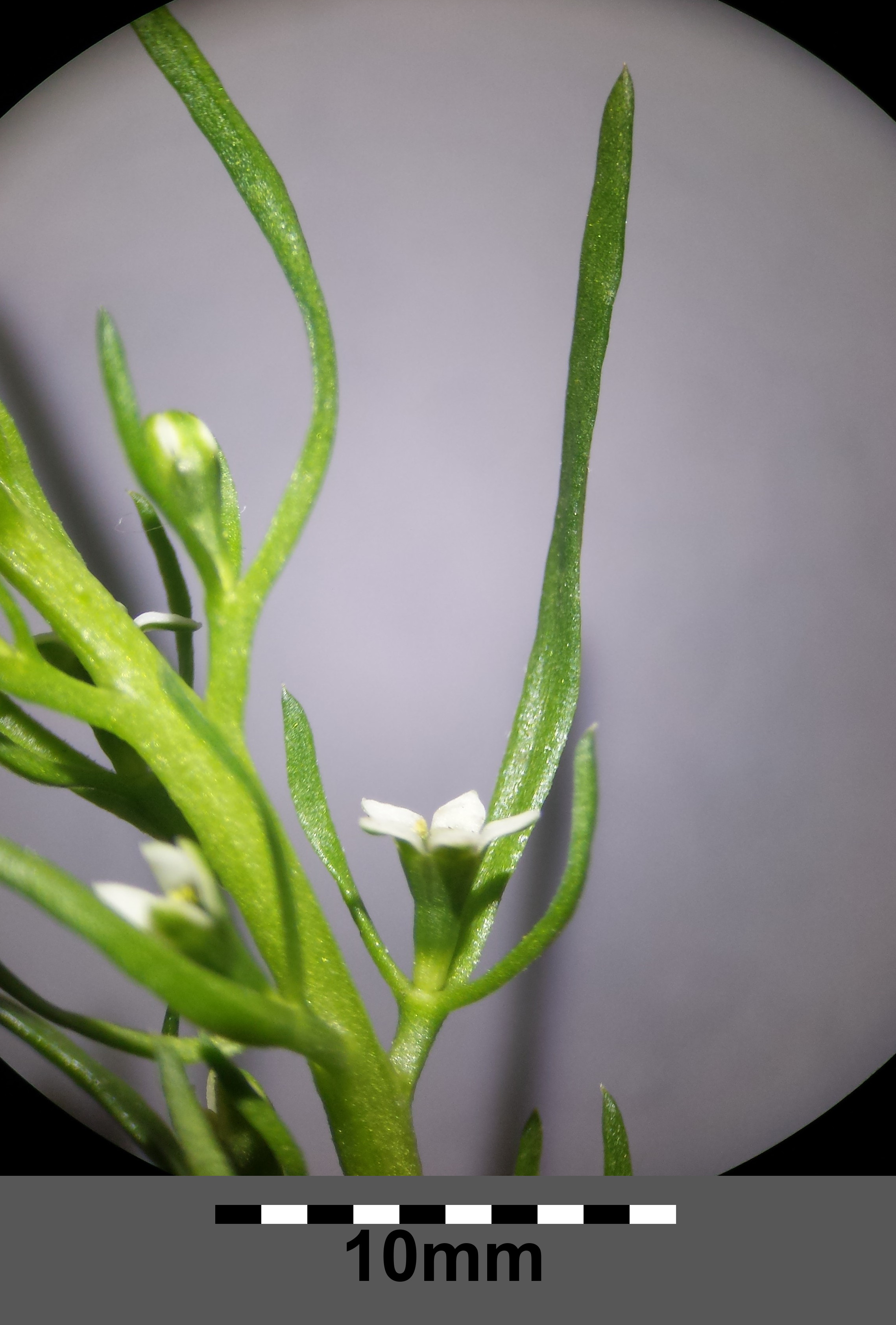 Inflorescence (detail) Taxonym: Thesium dollineri ss Fischer et al. EfÖLS 2008 ISBN 978-3-85474-187-9 Location: near Schleinbach, district Mistelbach, Lower Austria - ca. 280 m a.s.l. Habitat: slope of a way